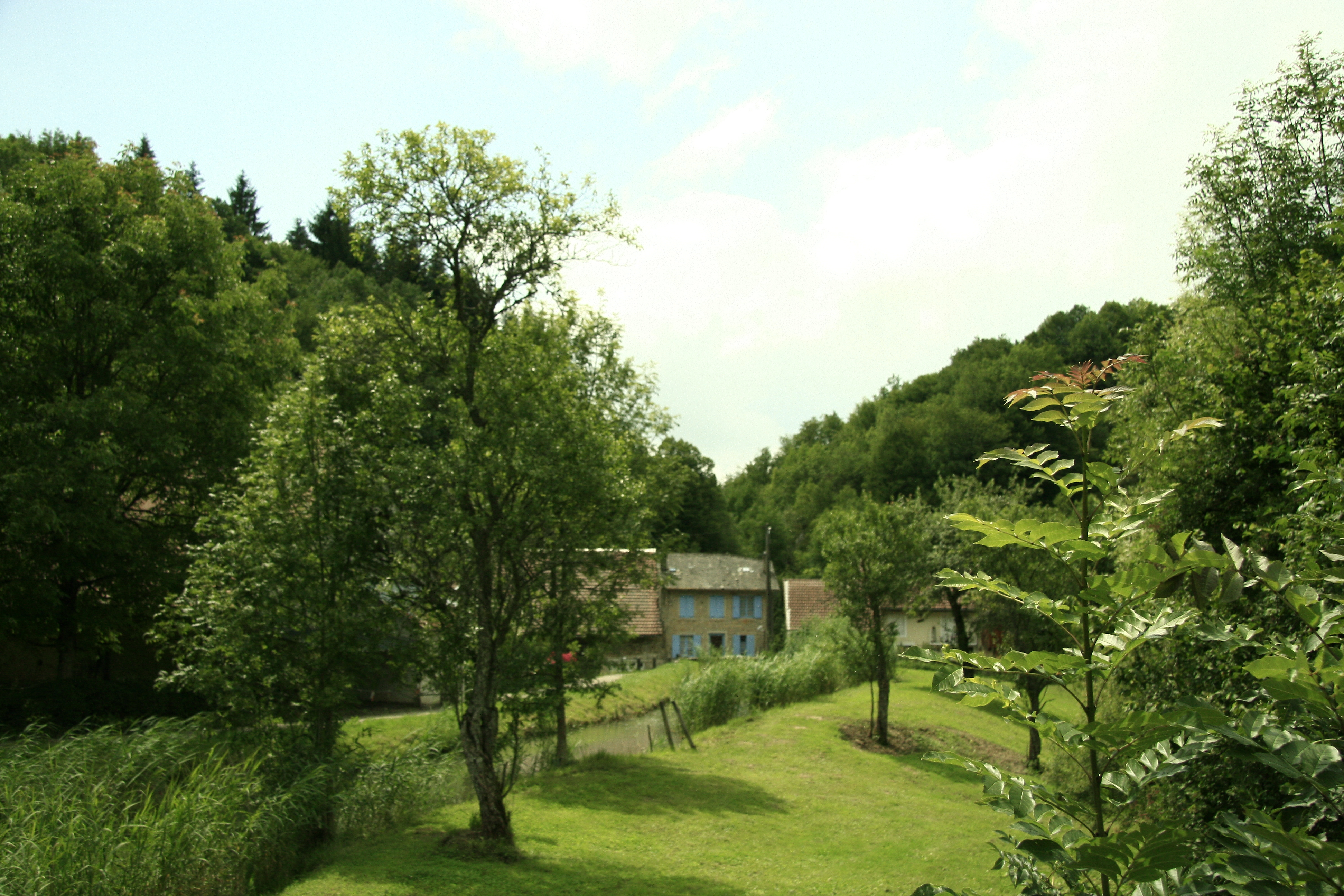 Fermes de Colognat Ain